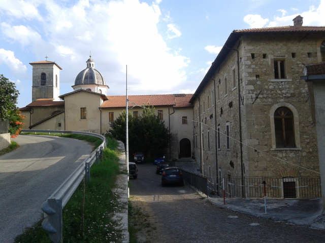 Madonna dell'Oriente sanctuary, Tagliacozzo, Abruzzo, Italy